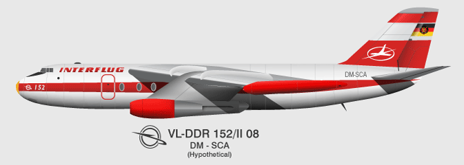 Baade 152/II in hypothetical livery of Interflug East German Airline